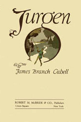 dust-jacket of Jurgen, A Comedy of Justice by James Branch Cabell for illustration of an article